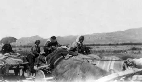 Armenian deportations in Erzurum. Pictures taken by Viktor Pietschmann